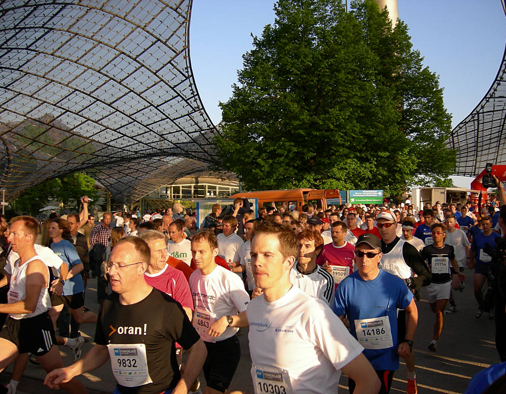 Maxi-Firmenlauf 2006: Start in Olympic Park, Munich, Bavaria.